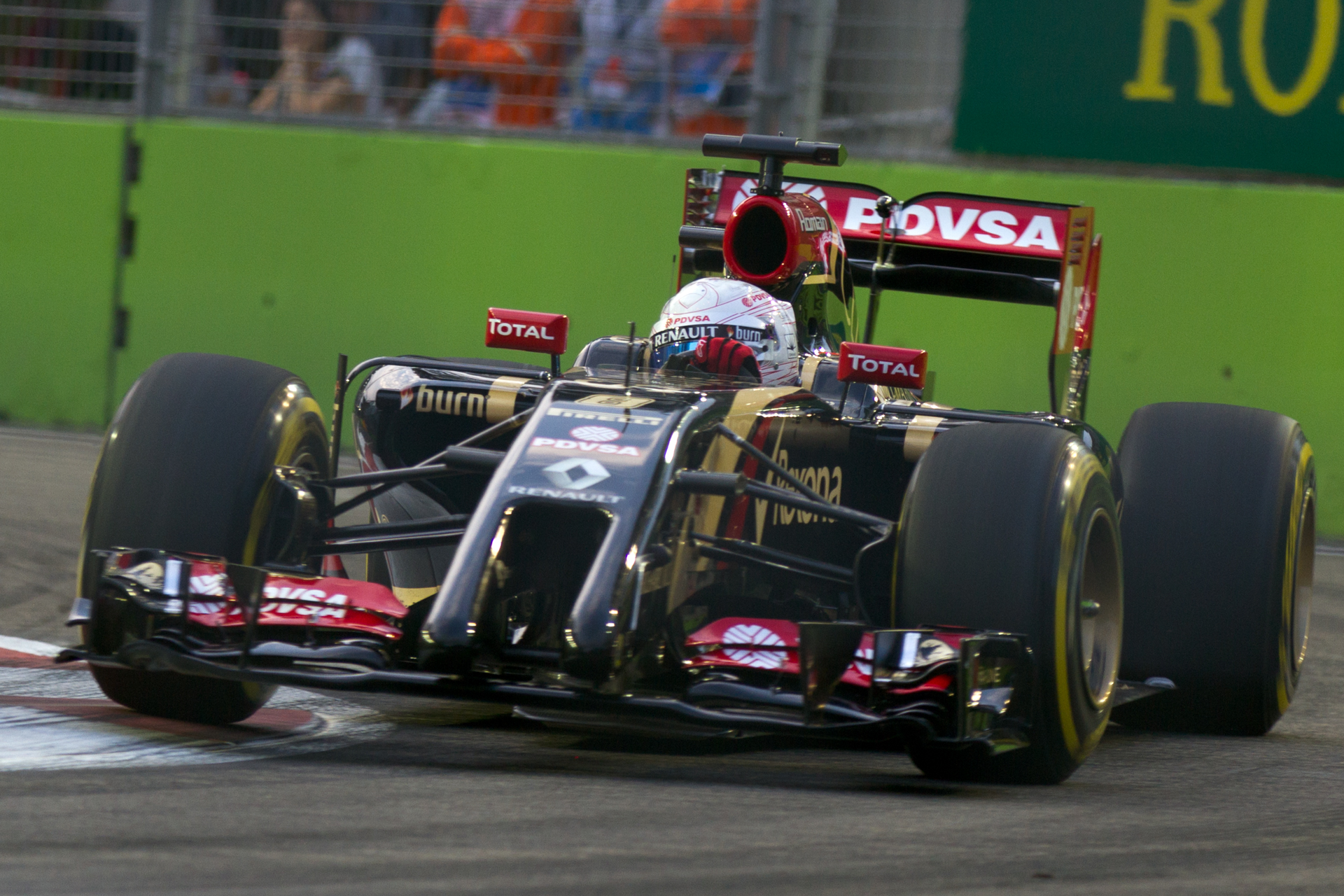 Formula One 2014 Rd.14 Singapore GP: Romain Grosjean (Lotus)